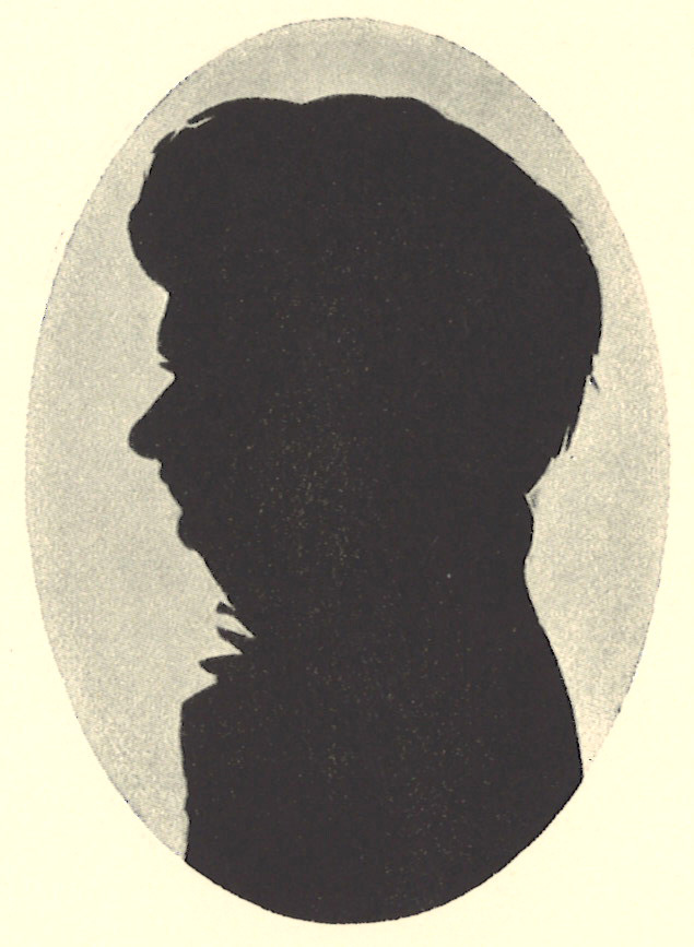 Fredrik Johan Cederschiöld (1774-1846), Swedish nobleman, philosopher, professor at Lund University and clergyman.